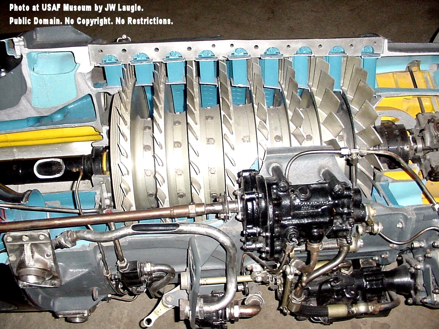 Top view of a Junkers Jumo 004 turbojet engine compressor.